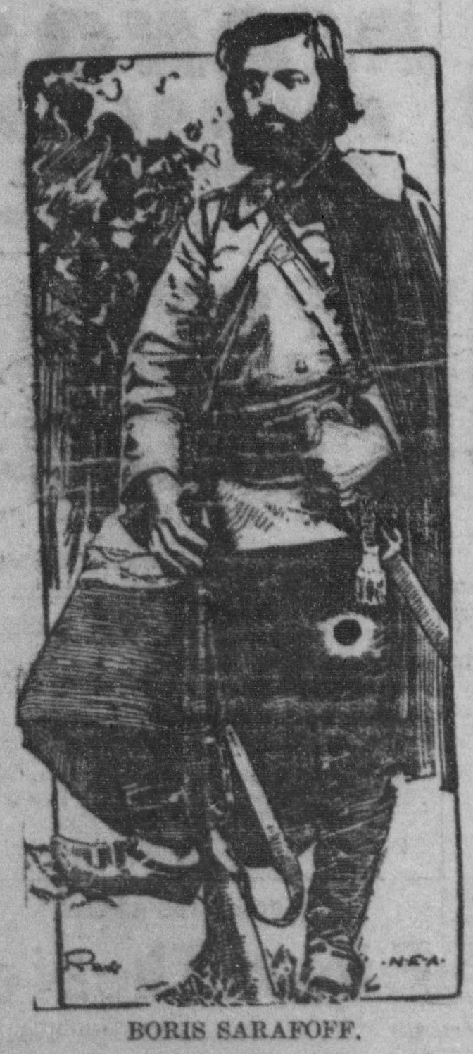 in 1904, Boris Sarafov was a Macedonian/Bulgarian revolutionary.